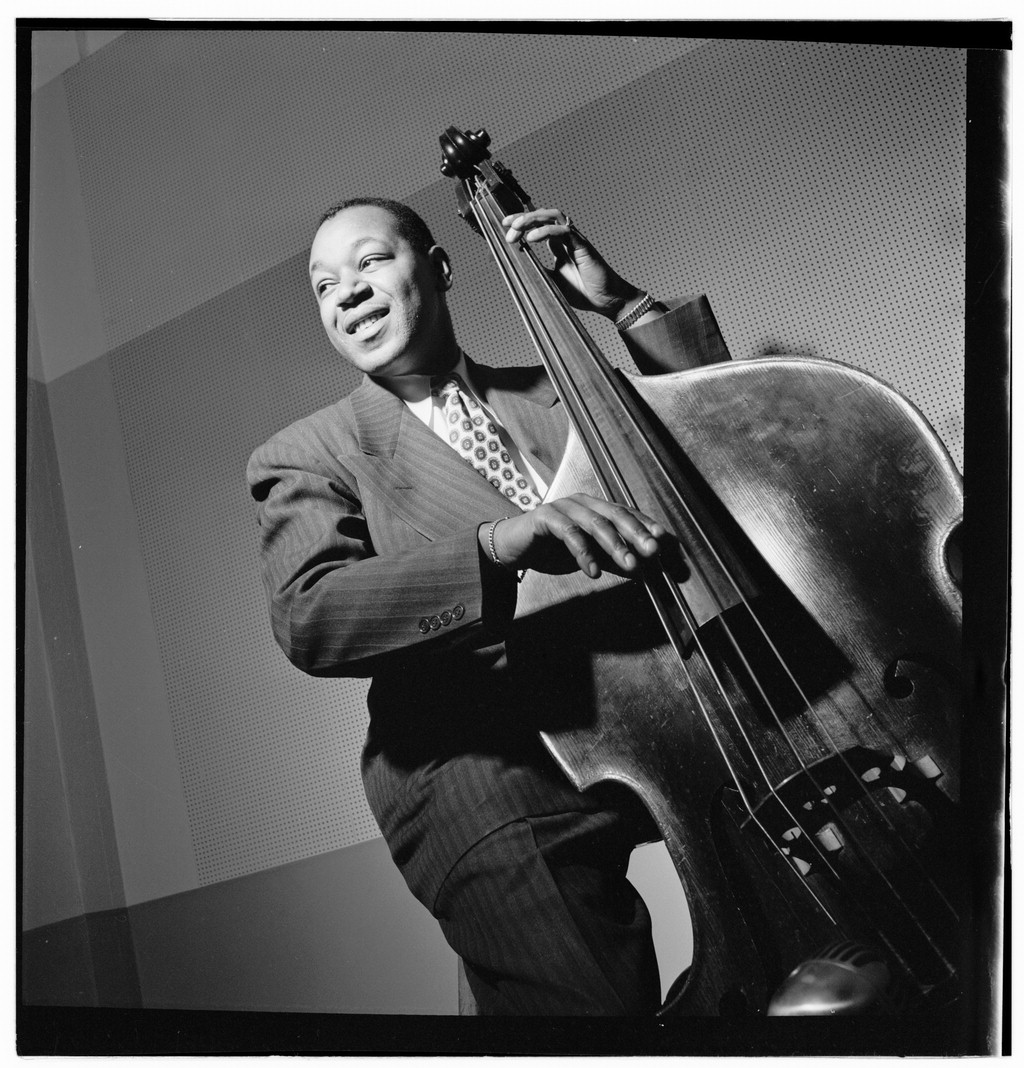 Al Hall